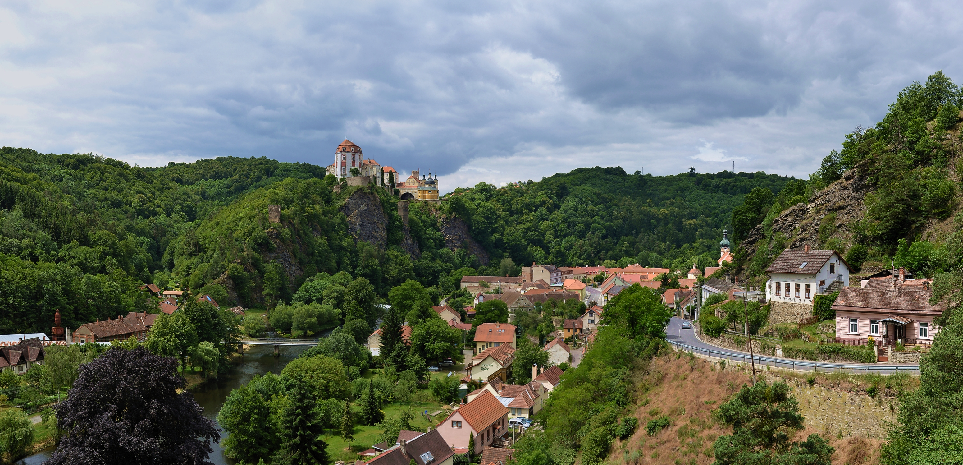 Vranov nad Dyjí (Frain), Moravia